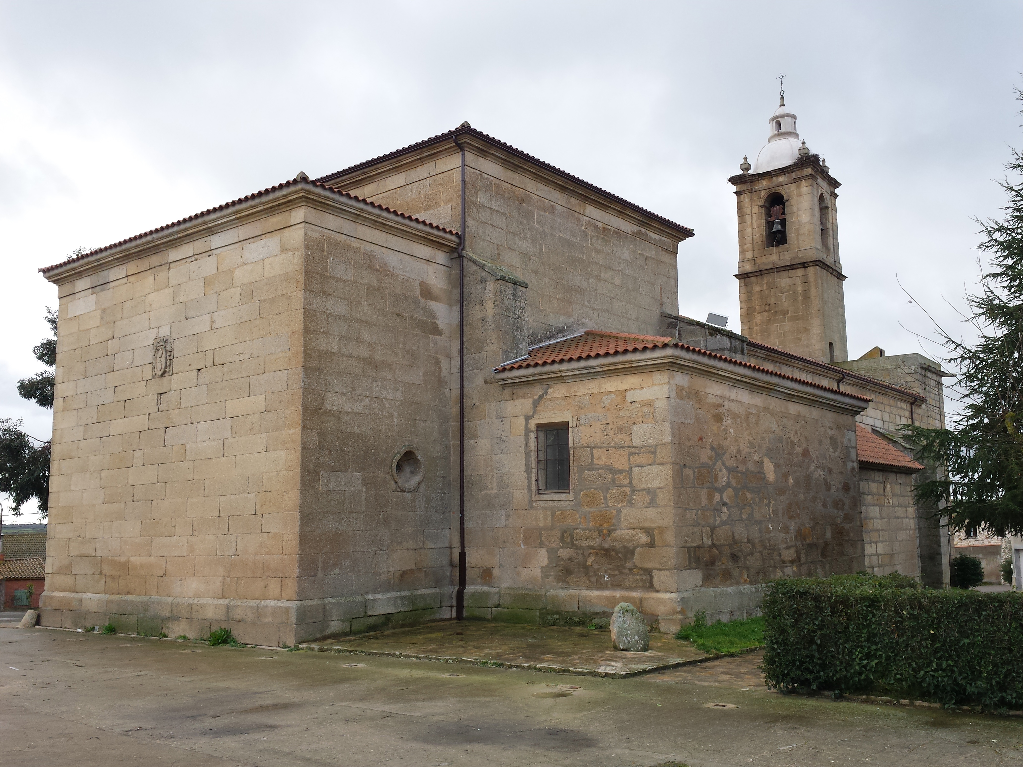 Church of Saint Augustine in Villar de Ciervo. Salamanca, Spain.